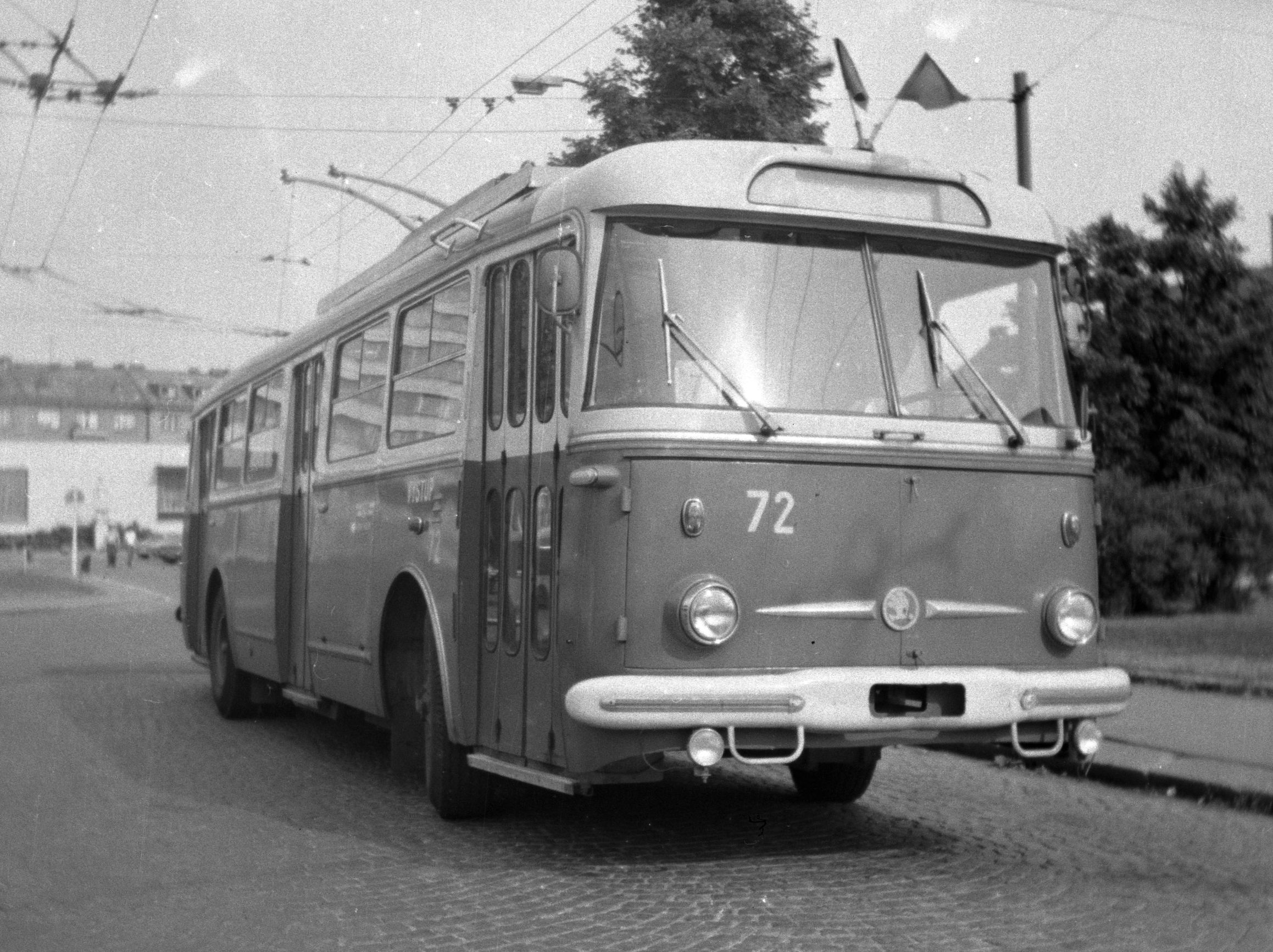 Hradec Králové, the Czech Republic. Trolleybuses Škoda 9Tr near the train station.